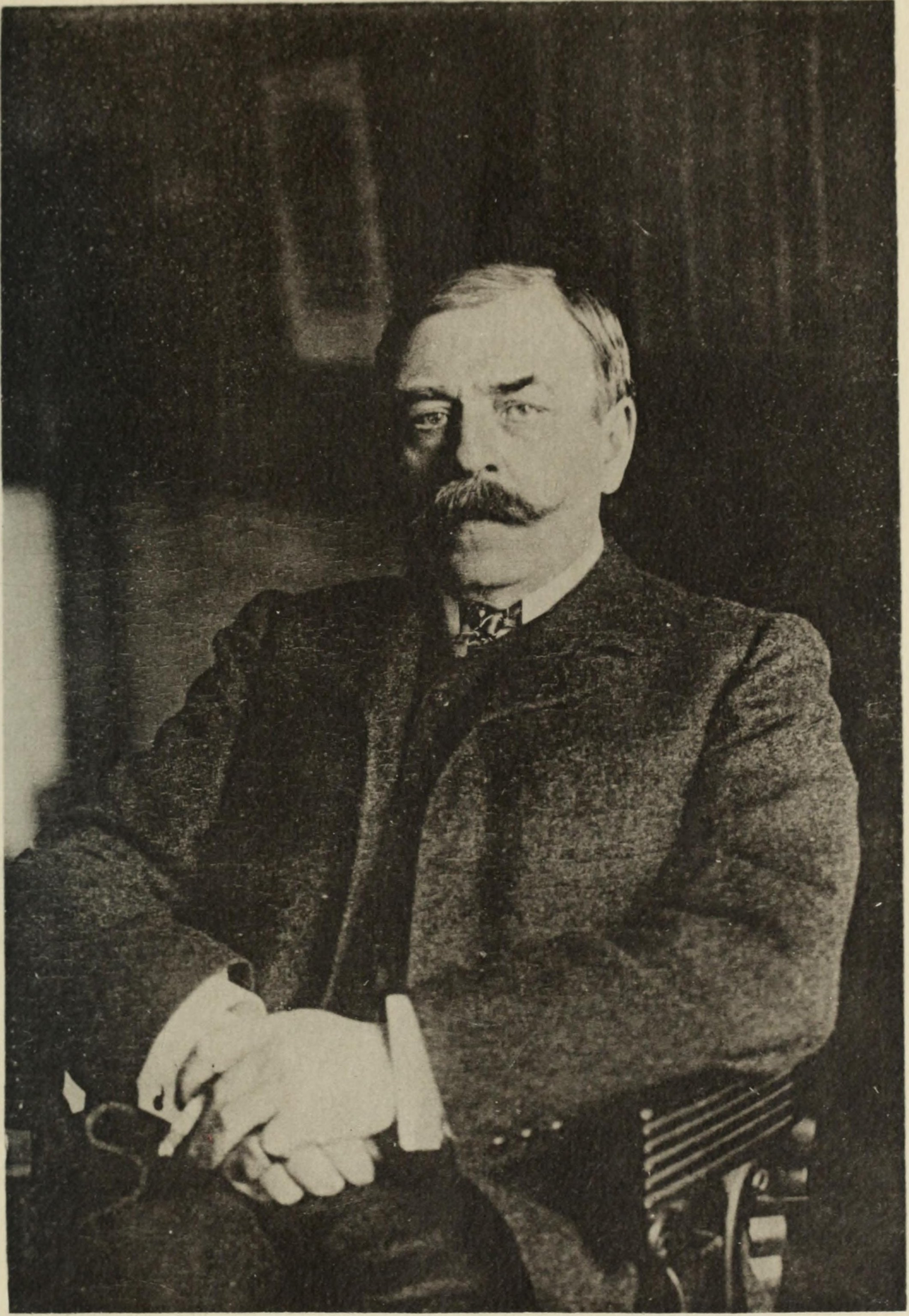 Portrait of Octave Mirbeau from its Bibliothèque.